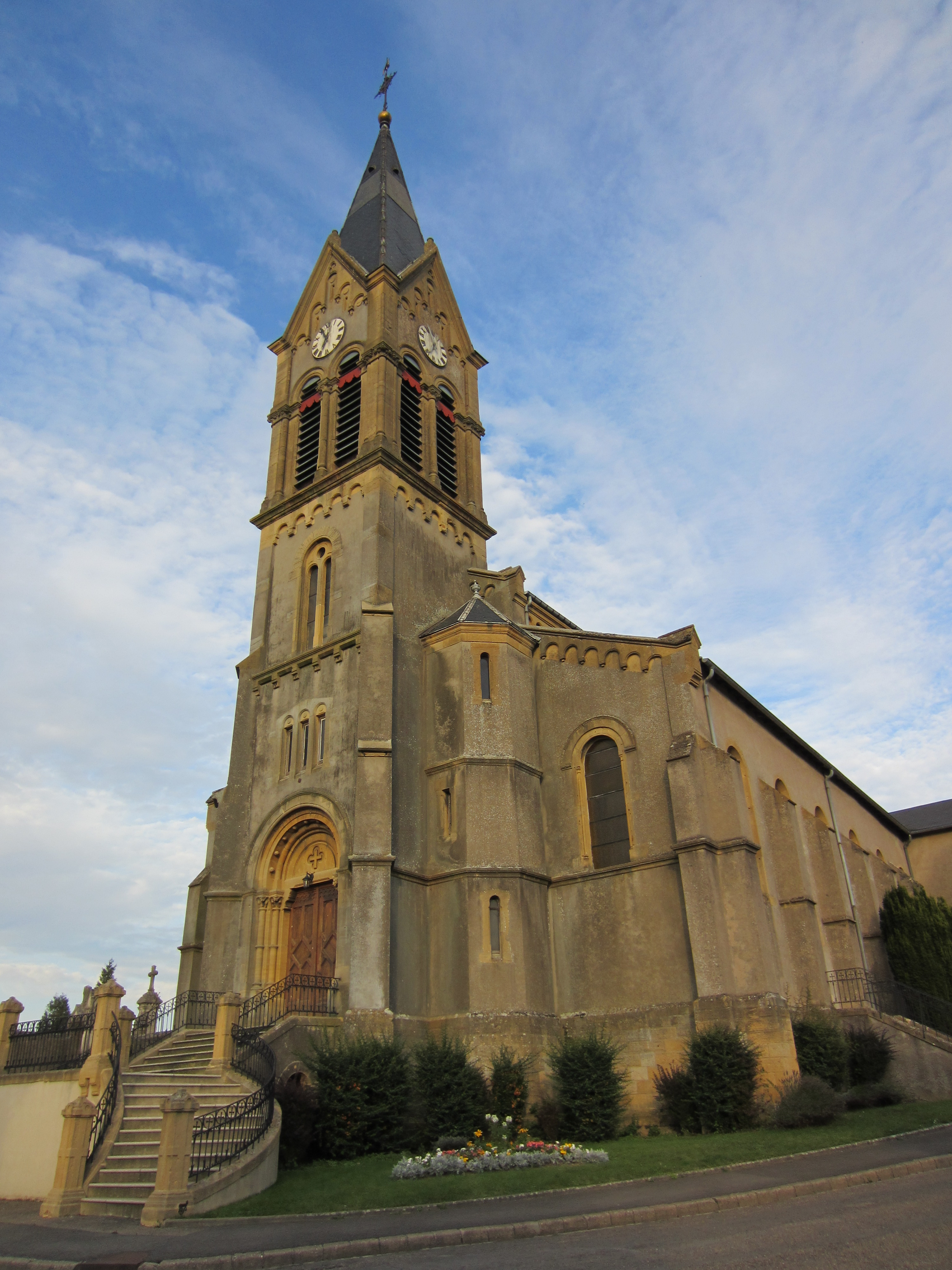 Description eglise Ars Moselle Date2 September 2011Sourcemon appareil photoAuthorAimelaimePermission (Reusing this file) eglise Ars Moselle